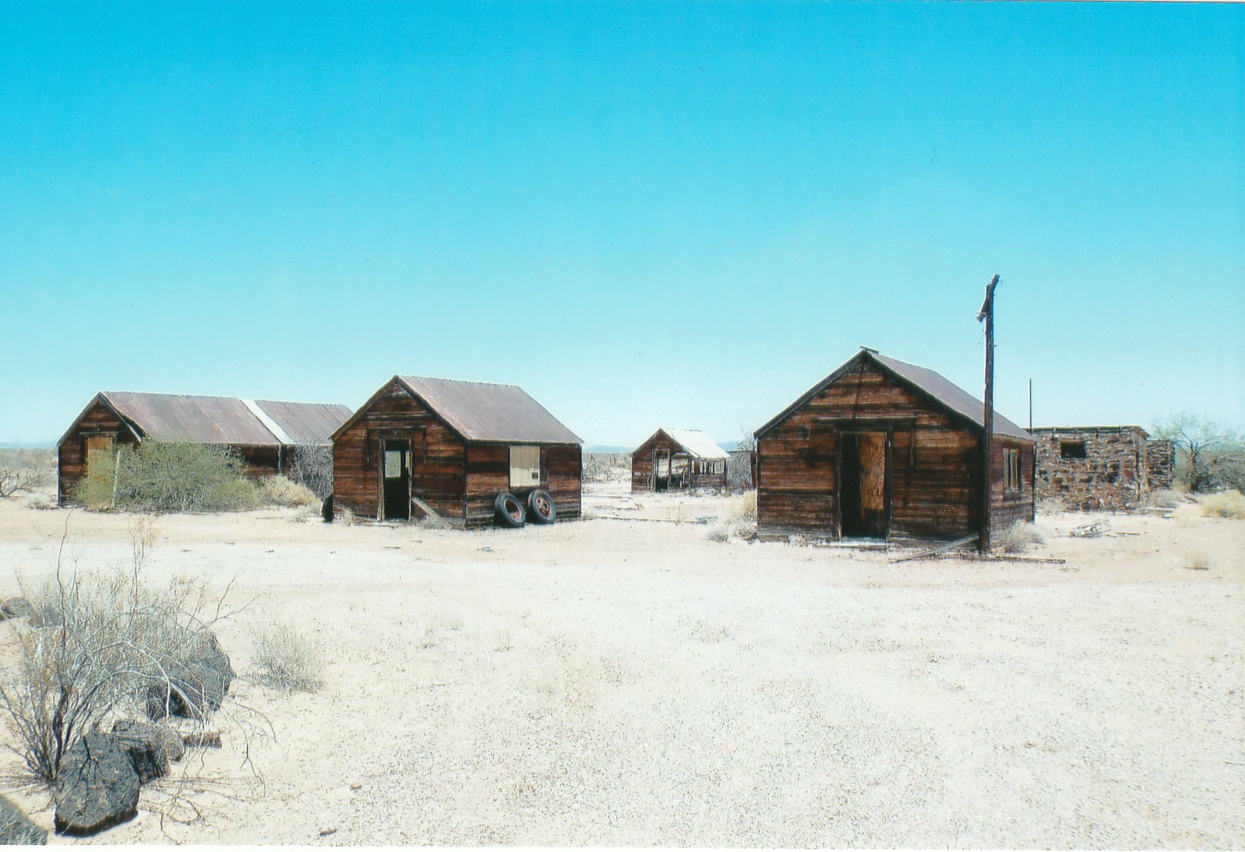 1890’s military camp named after the town of Hyder. The buildings, which are still in good condition, were once used by the 77th Infantry Division and the 104th Infantry Division during World War II.